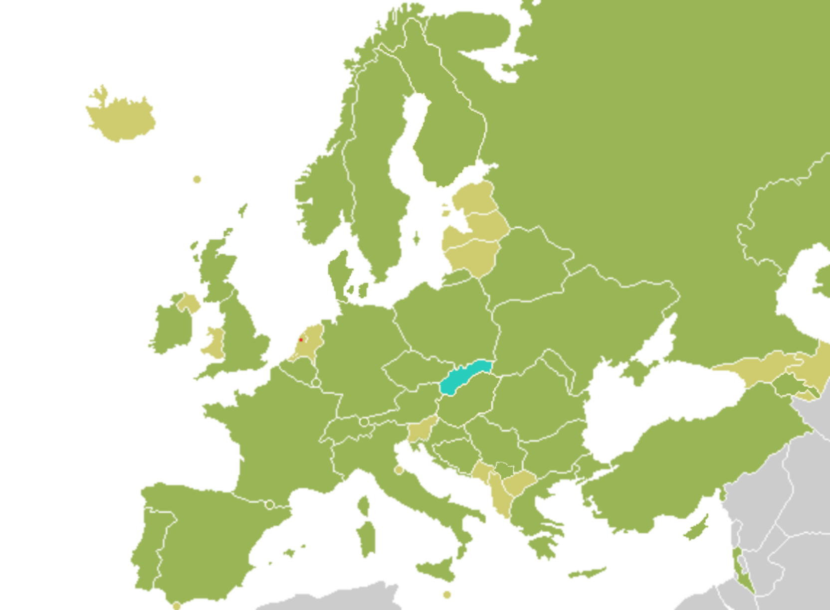 A map of Europe - countries visited by football club AZ are coloured in green.